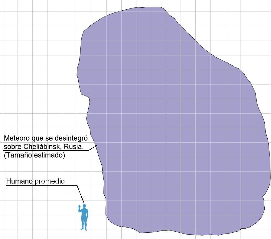 Comparison of the estimated size of the meteor that disintegrated over the city of Chelyabinsk on 15 February 2013 with a human. The approximate size is 15 metres in diameter according to a NASA statement. Photo text: Meteor that disintegrated over Chelyabinsk, Russia. (Estimated size). Humano promedio = Average human.